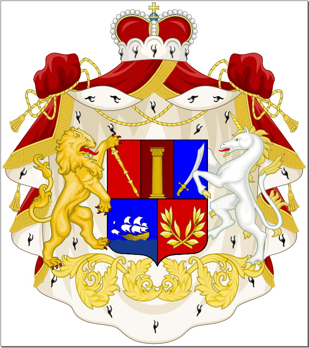 This image (or other media file) is in the public domain because its copyright has expired. This applies to Australia, the European Union and those countries with a copyright term of life of the author plus 70 years. You must also include a United States public domain tag to indicate why this work is in the public domain in the United States. Note that a few countries have copyright terms longer than 70 years: Mexico has 100 years, Colombia has 80 years, and Guatemala and Samoa have 75 years, Russia has 74 years for some authors. This image may not be in the public domain in these countries, which moreover do not implement the rule of the shorter term. Côte d'Ivoire has a general copyright term of 99 years and Honduras has 75 years, but they do implement the rule of the shorter term. This file has been identified as being free of known restrictions under copyright law, including all related and neighboring rights.